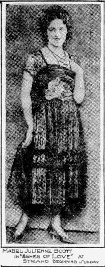 Newspaper ad for the American film Ashes of Love (1918) with Mabel Julienne Scott, on page 6 of the November 11, 1922 Duluth Herald.